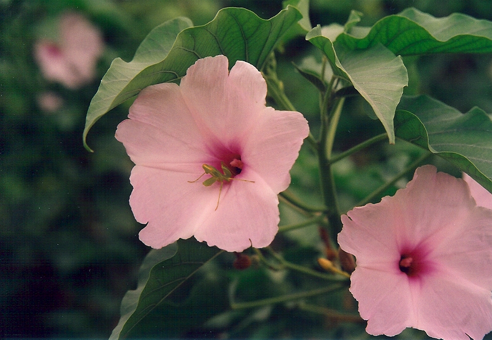 Pink flower (probably Ipomoea) with insect, garden in Palapye, Botswana. Taken 1995 on film.